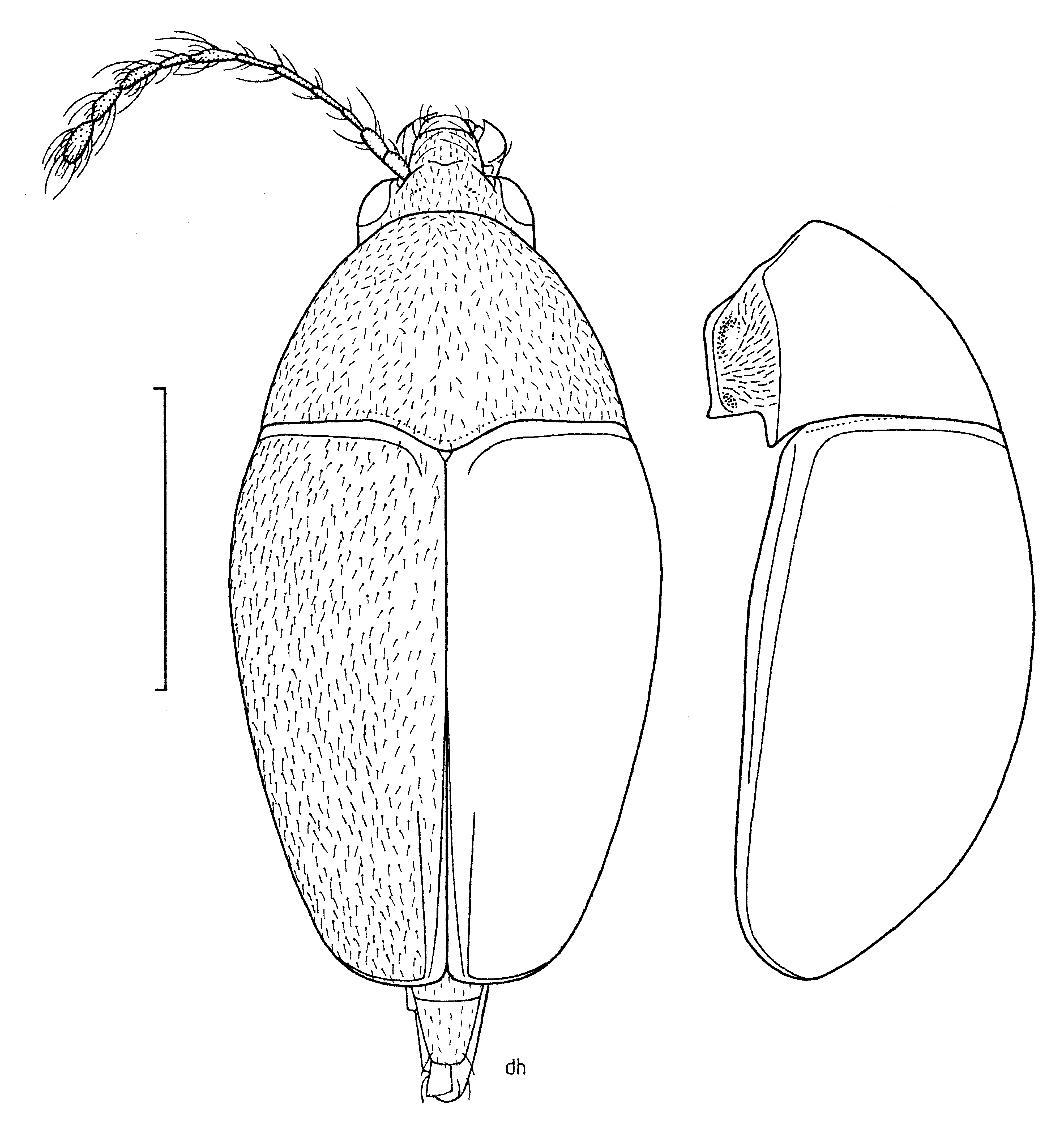 (Coleoptera: Staphylinidae) Nothonewtonia illustrated by Des Helmore.